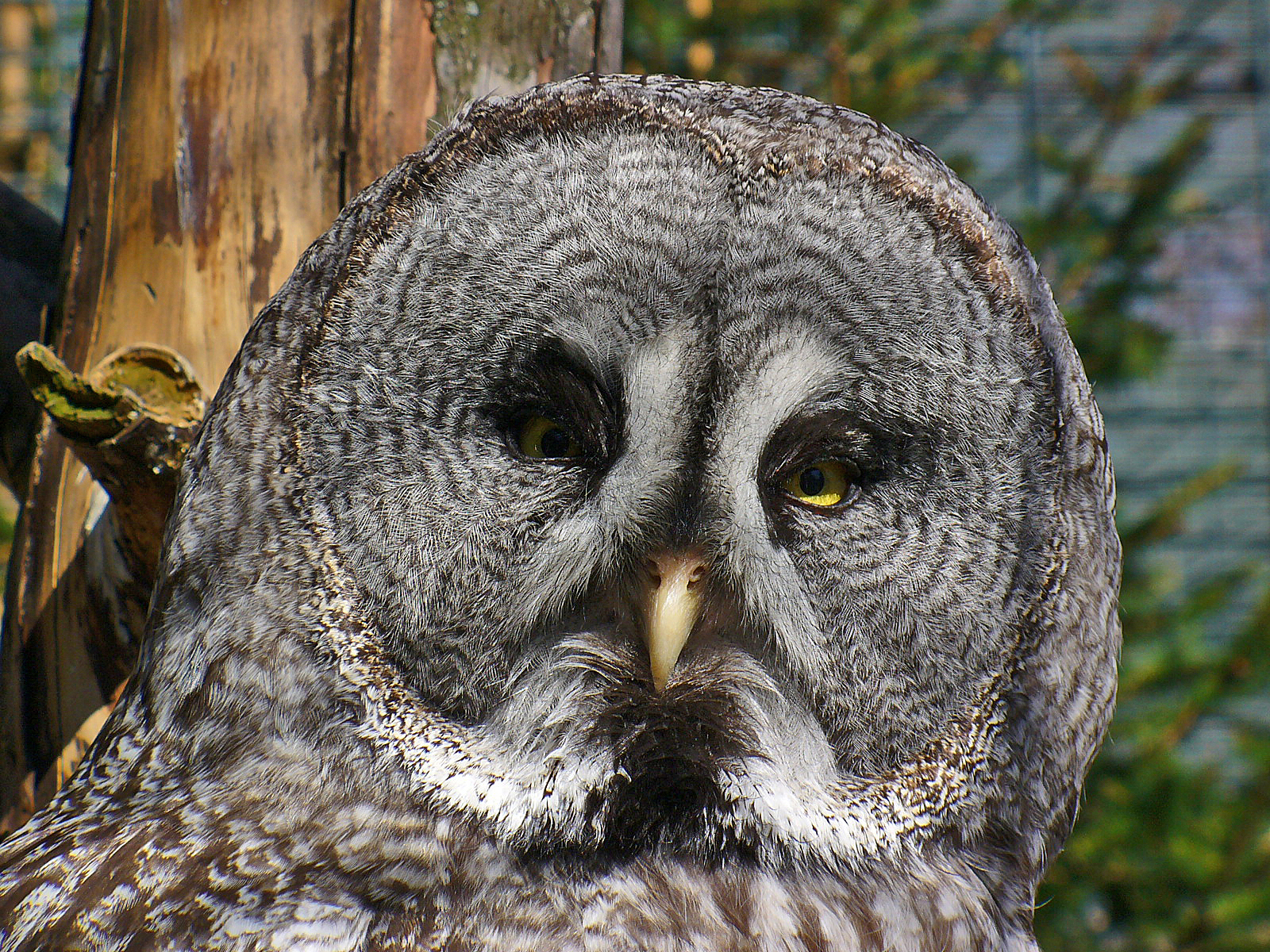 Strix nebulosa, Strigidae, Great Gray Owl; Zoo Karlsruhe, Germany. The feathers are used in homeopathy as remedy: Strix nebulosa (Strix-n.)